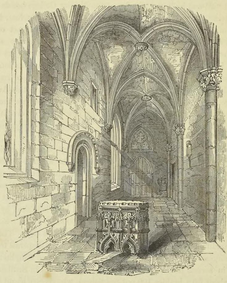 Trinity College Church - North Aisle 1852